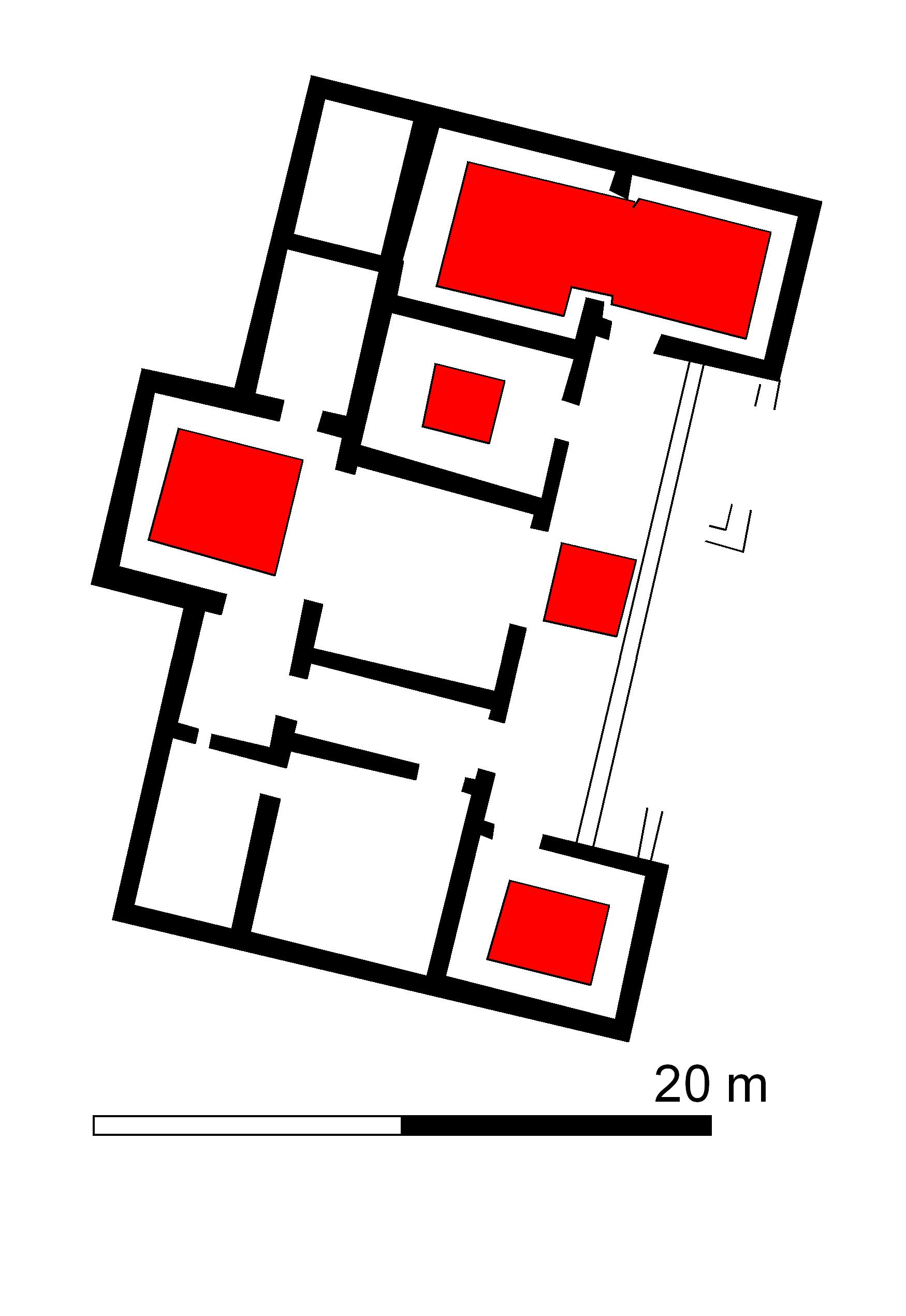 Plan of Roman villa at Brading, early 4th century, redrawn from Barry Cunliffe: The Roman Villa at Brading, Isel of Wight, The Excavations of 2008-10, Oxford 2013, ISBN 978-1-905905-23-2, Fig. 5.2, page 83